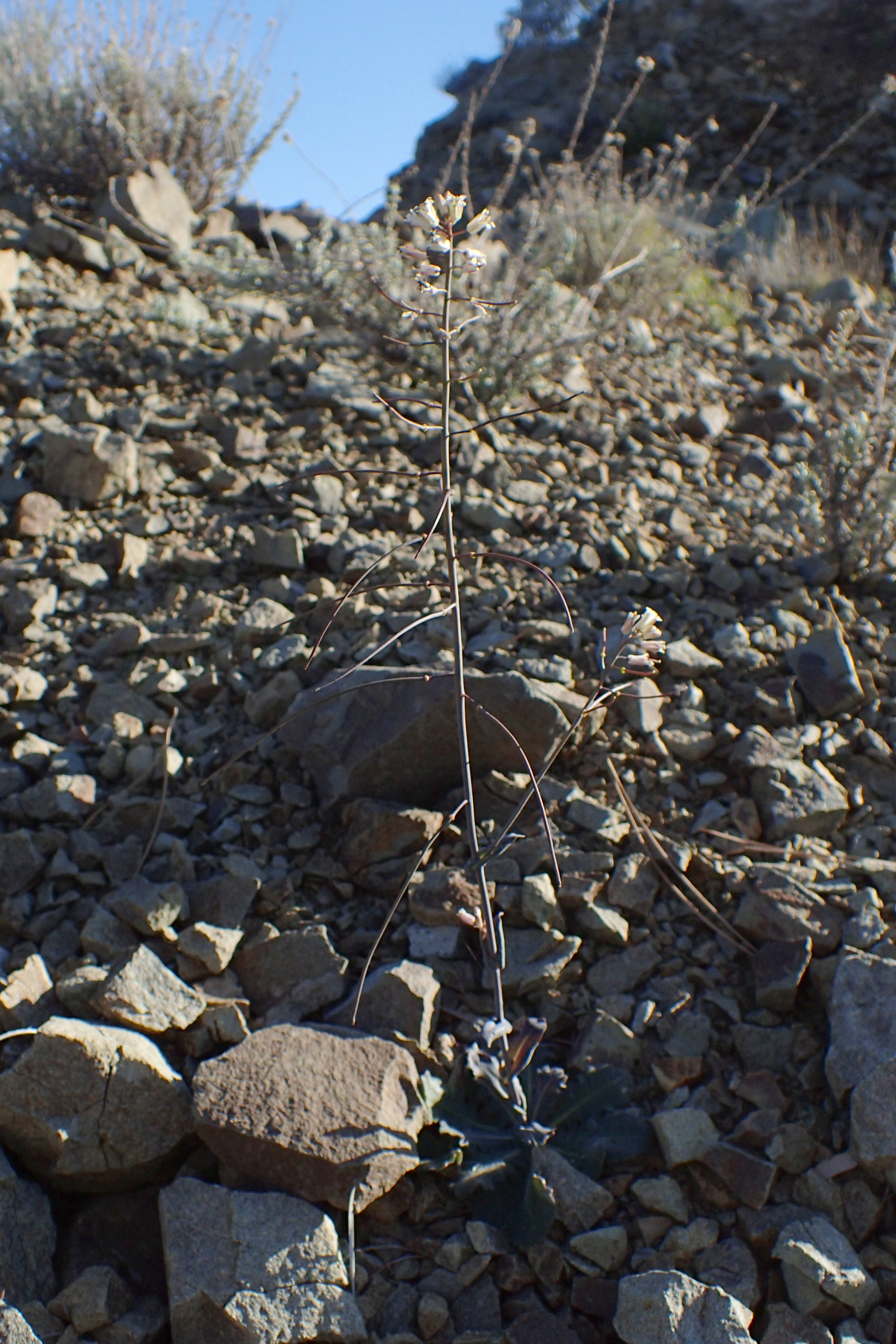 Arabis kennedyae in Pafos Forest, Cyprus